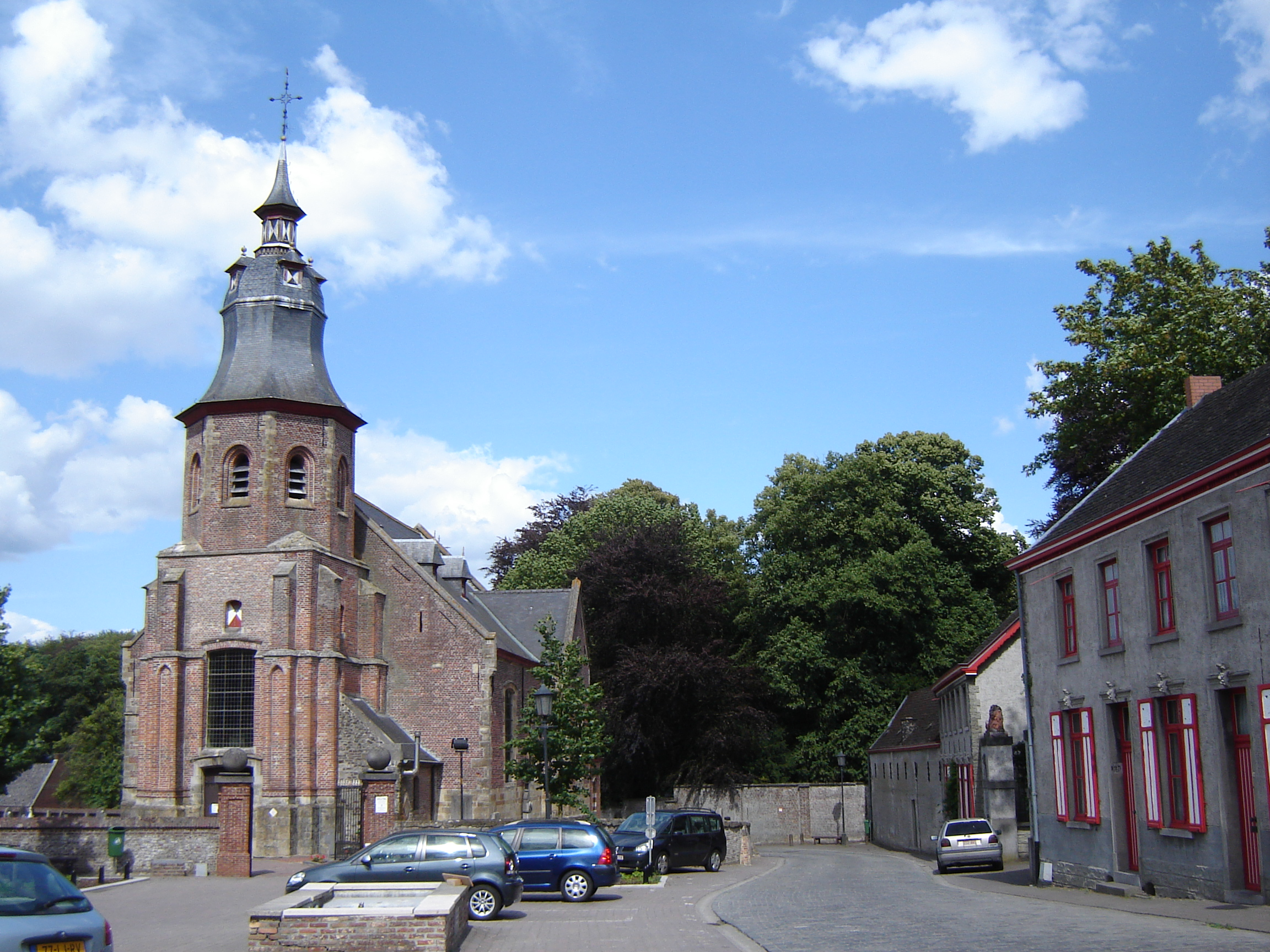 Town center of Roborst. Roborst, Zwalm, East Flanders, Belgium